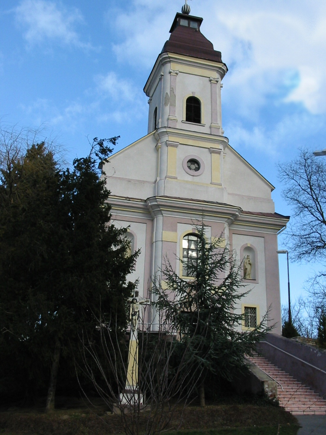 Temle at Gbelce (Slovakia).